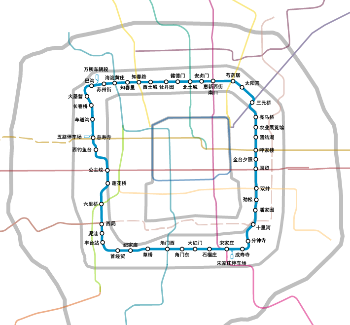 Map of Line 10, Beijing Subway, drawn to the scale.